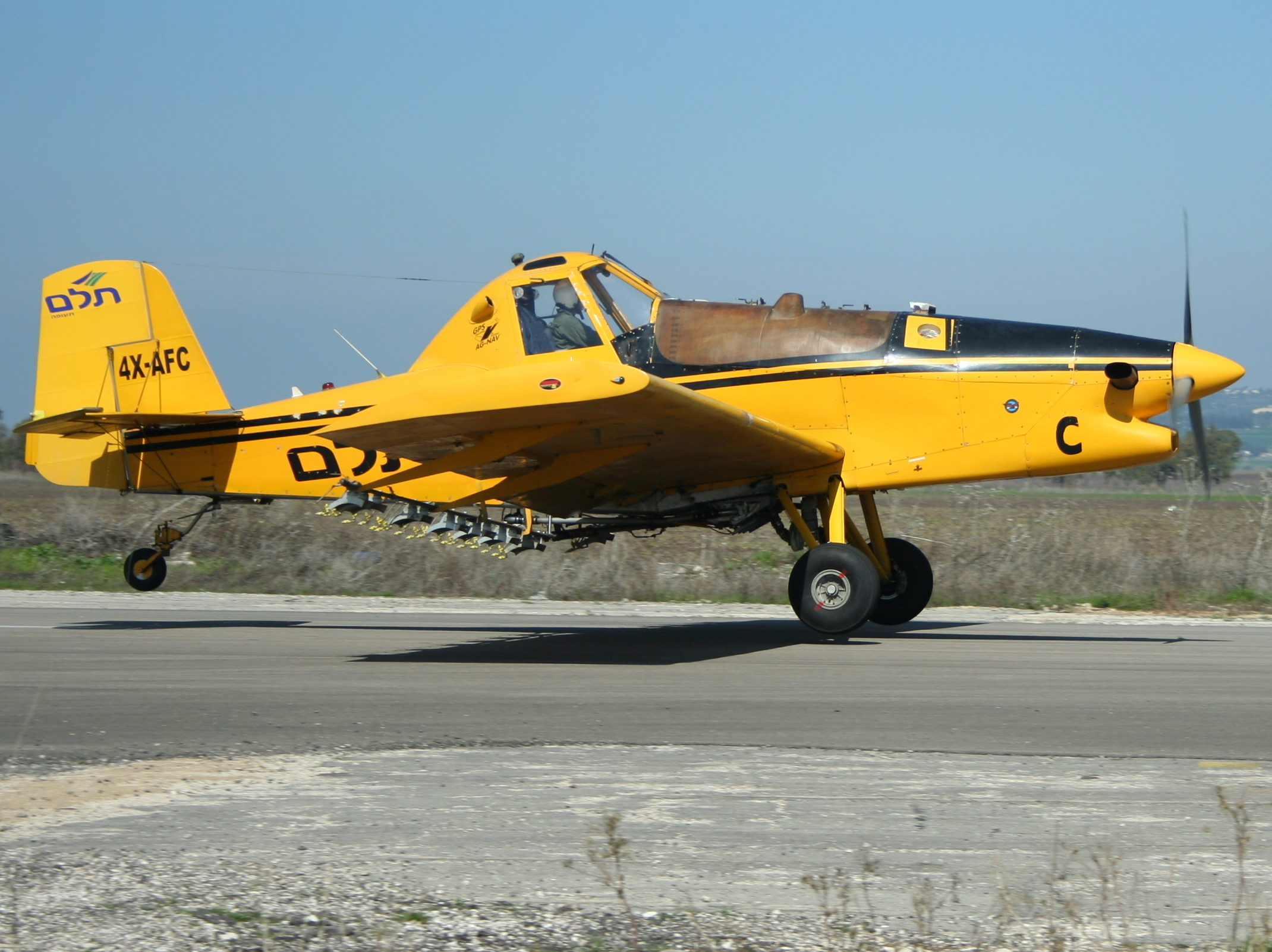 Ayres S2R-T45 Turbo Thrush owned by Telem Aviation at Megido Airstrip